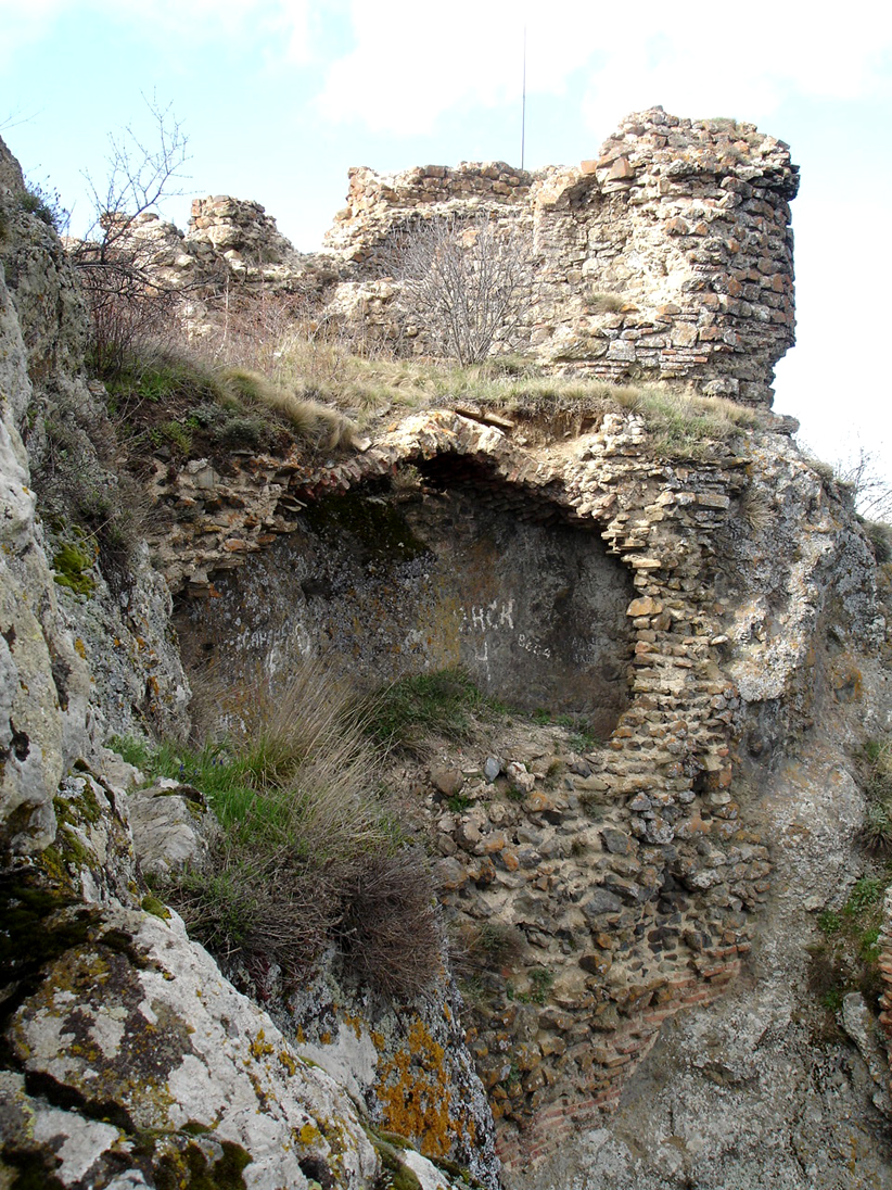 Remains of the Kojori